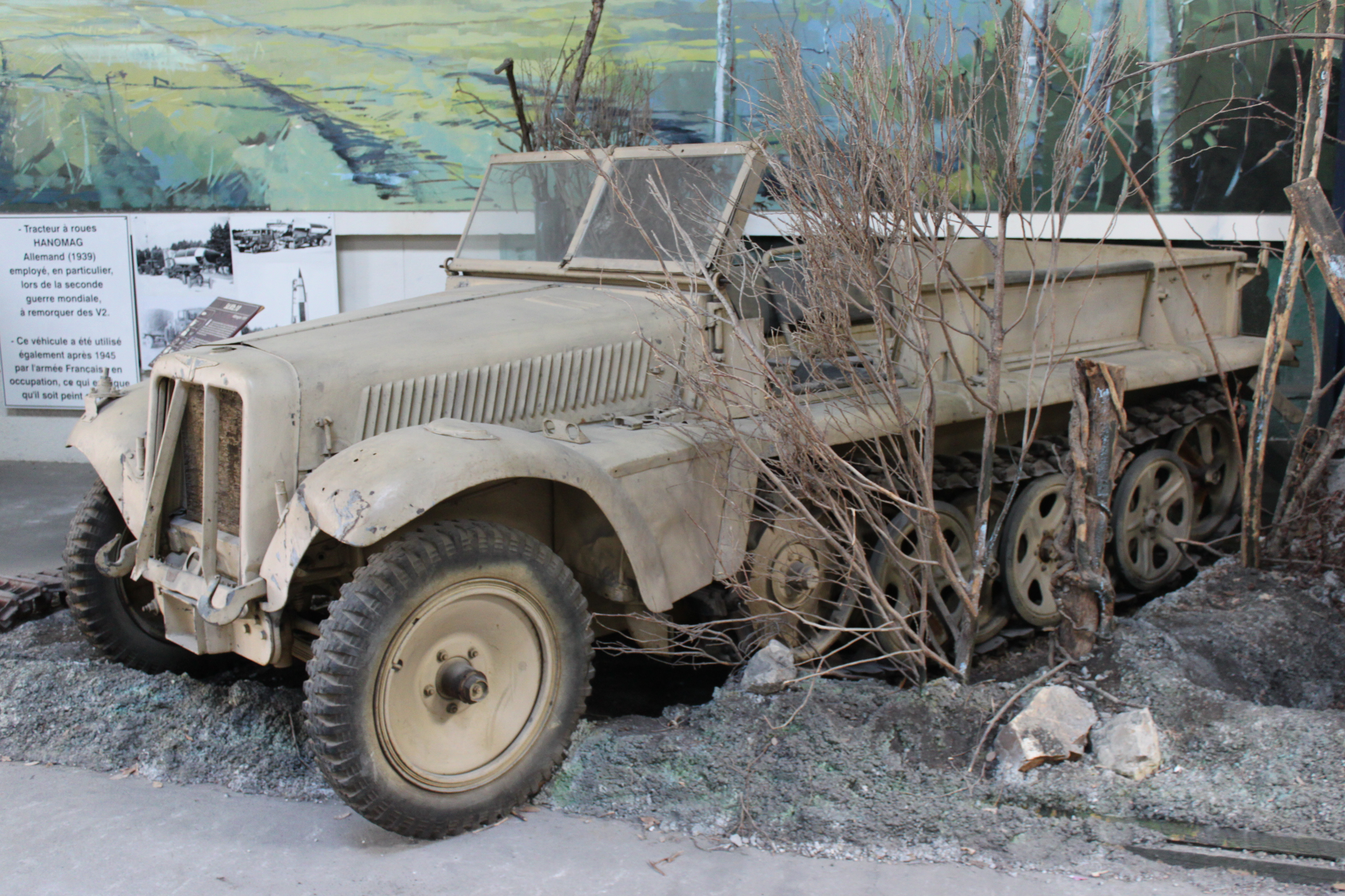 German SdKfz 10 (WW II) at the Musée des Blindés in Saumur (France)